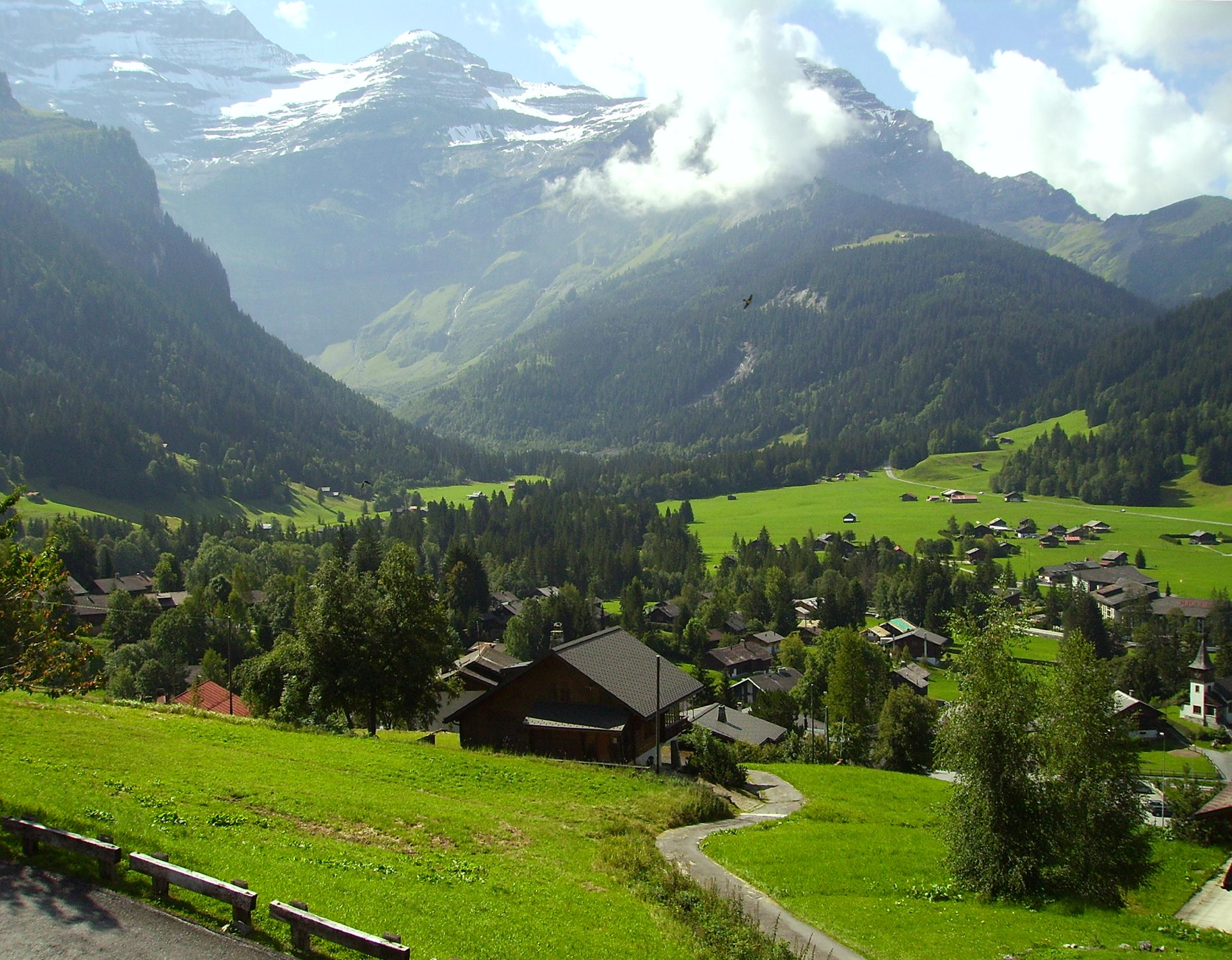 Les Diablerets in the Vaud Alps, Switzerland